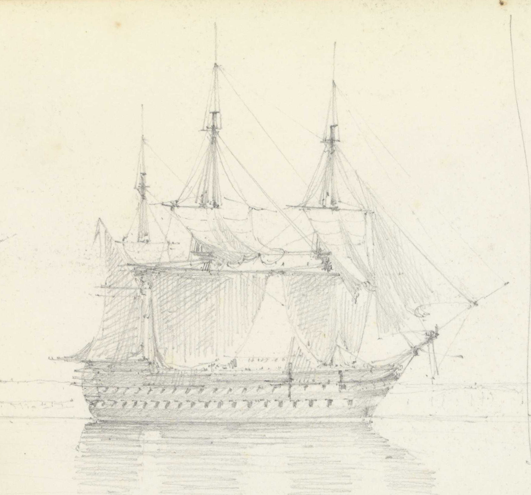 The 'Sans Pareil' in Besika Bay, 3 October 1853. British two-decker, is inscribed, 'Sans Pareil - Besika Bay / Oct 3d 53 Capt Dacres', with 'airy Blue' and 'Yellow' as colour notes in the sky to the left of the ship, which is shown almost in starboard broadside view, drying sails. This is cropped from the last page of Mends's 1850-53 sketchbook, covering his commission as first lieutenant of the 'Trafalgar'. In January 1854 he was promoted commander and went home to become second-in-command of HMS 'James Watt'. He therefore missed the 'Trafalgar's' part in the Crimean War campaign that followed in the Black Sea, though taking part in his new ship in the Baltic theatre of that conflict. The 'Sans Pareil' in Besika Bay.